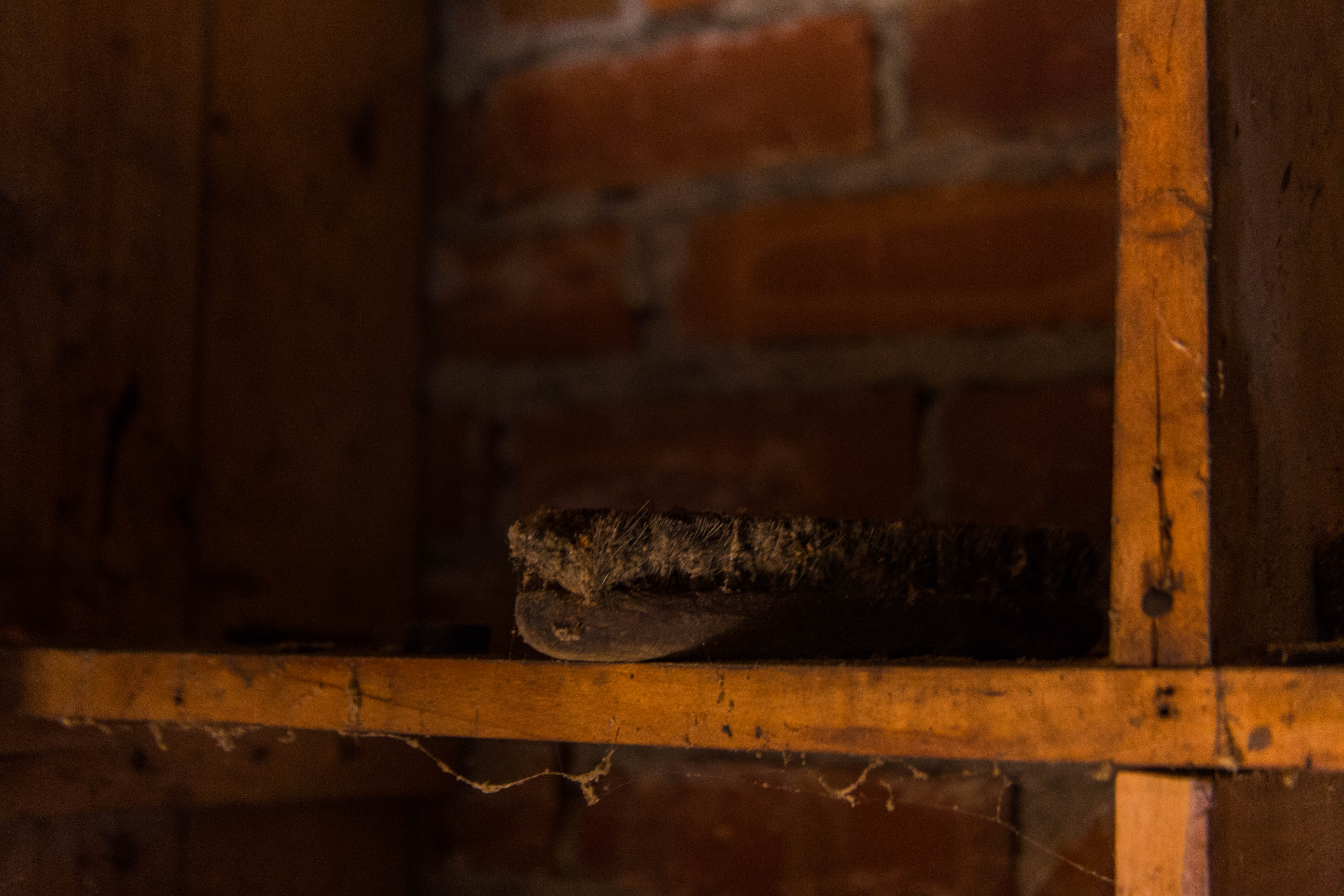 Double Shoals Cotton Millbrush on shelf